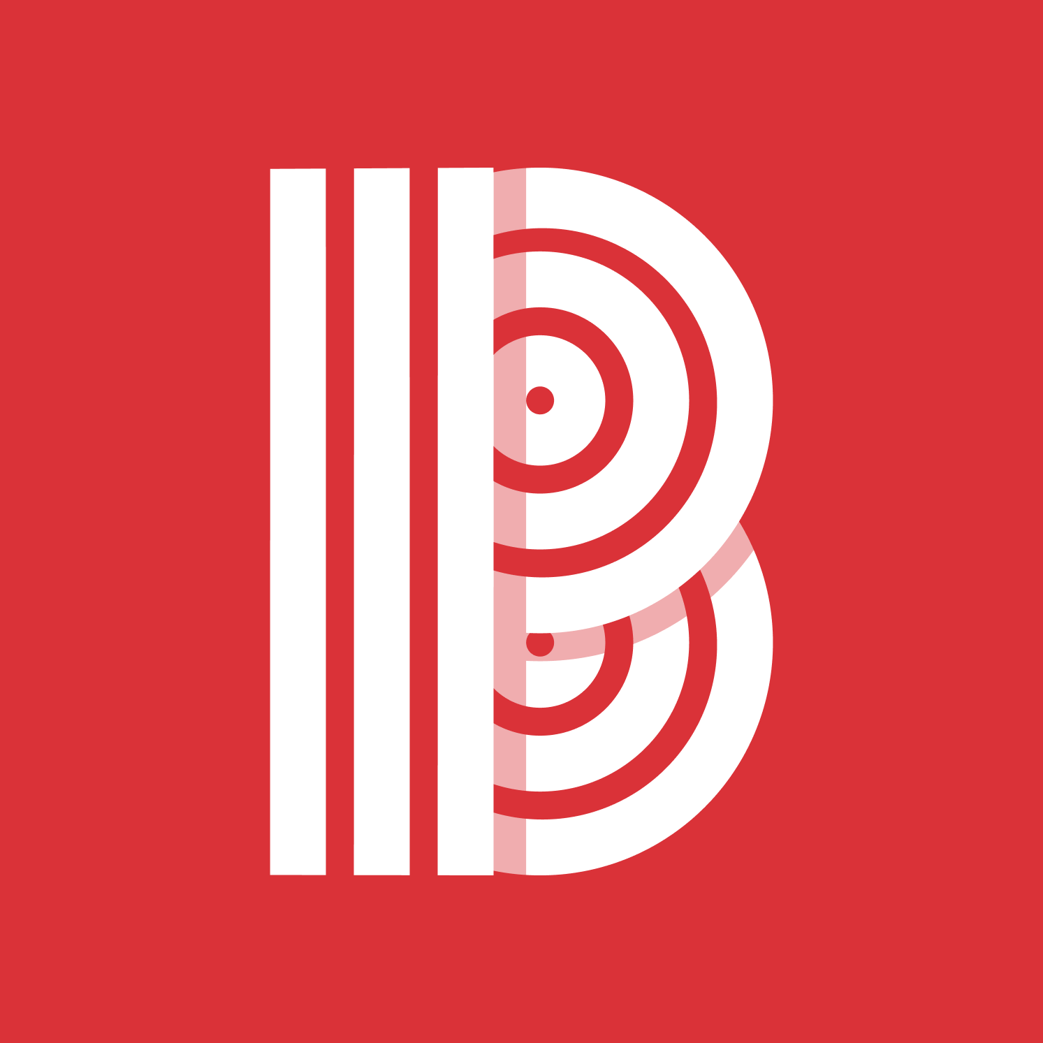 Blind logo